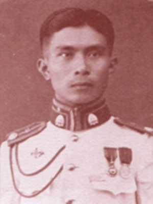 Phraya Srisitthisongkhram